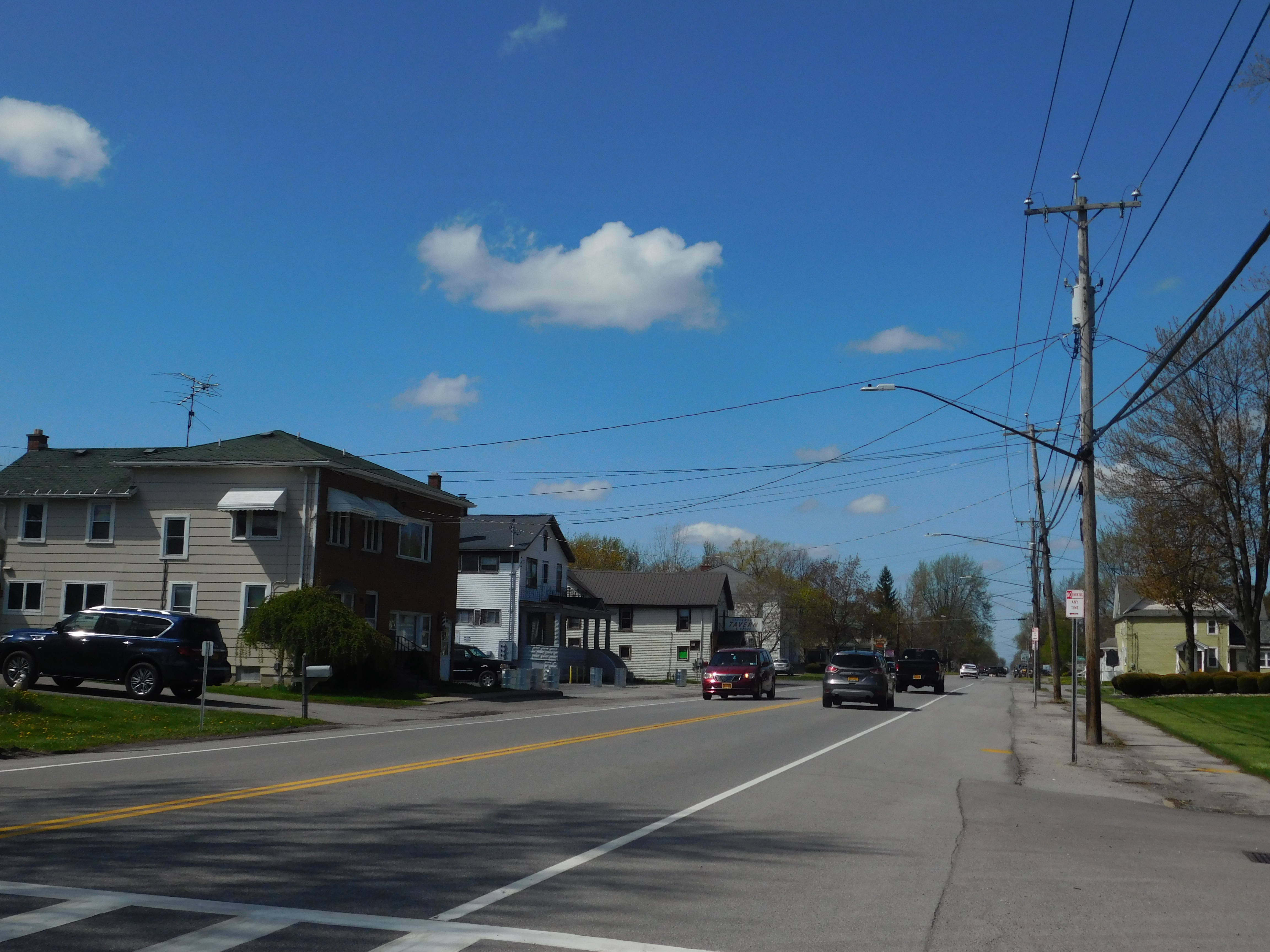 New York State Route 78 northbound in Swormville, New York.